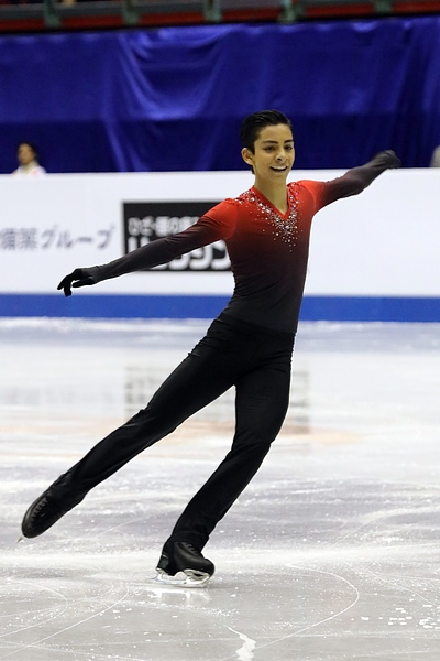 Donovan Carrillo, a figure skater from Mexico